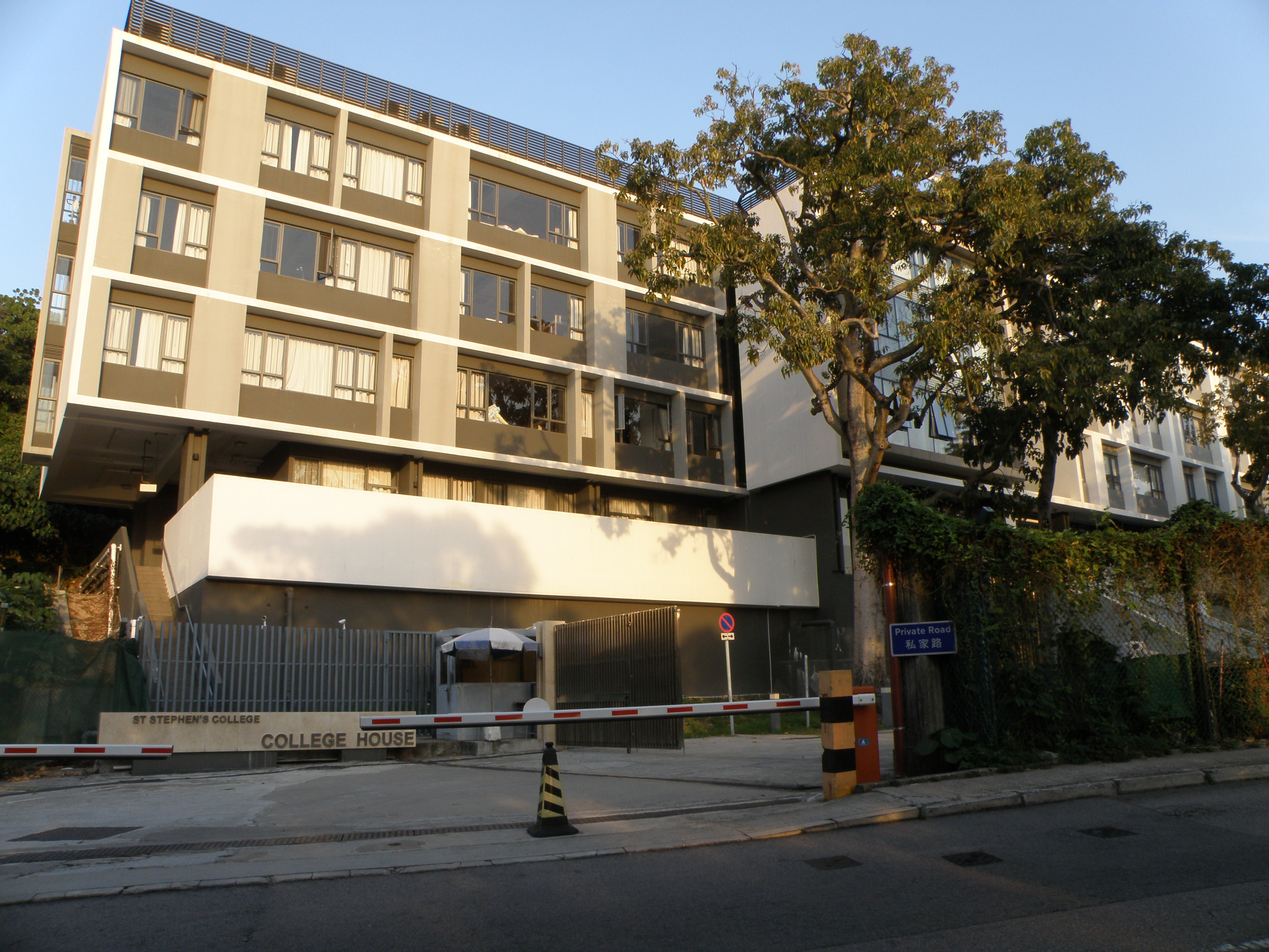 St. Stephen's College in Stanley, Hong Kong.